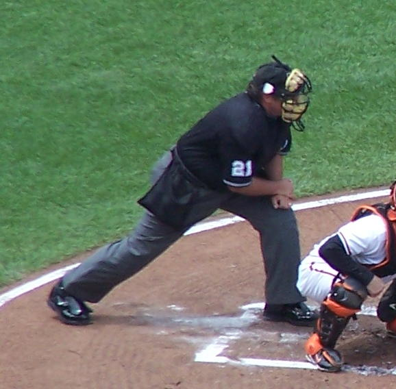 Hunter Wendelstedt umpires a game between the Boston Red Sox and the Baltimore Orioles at Camden Yards.